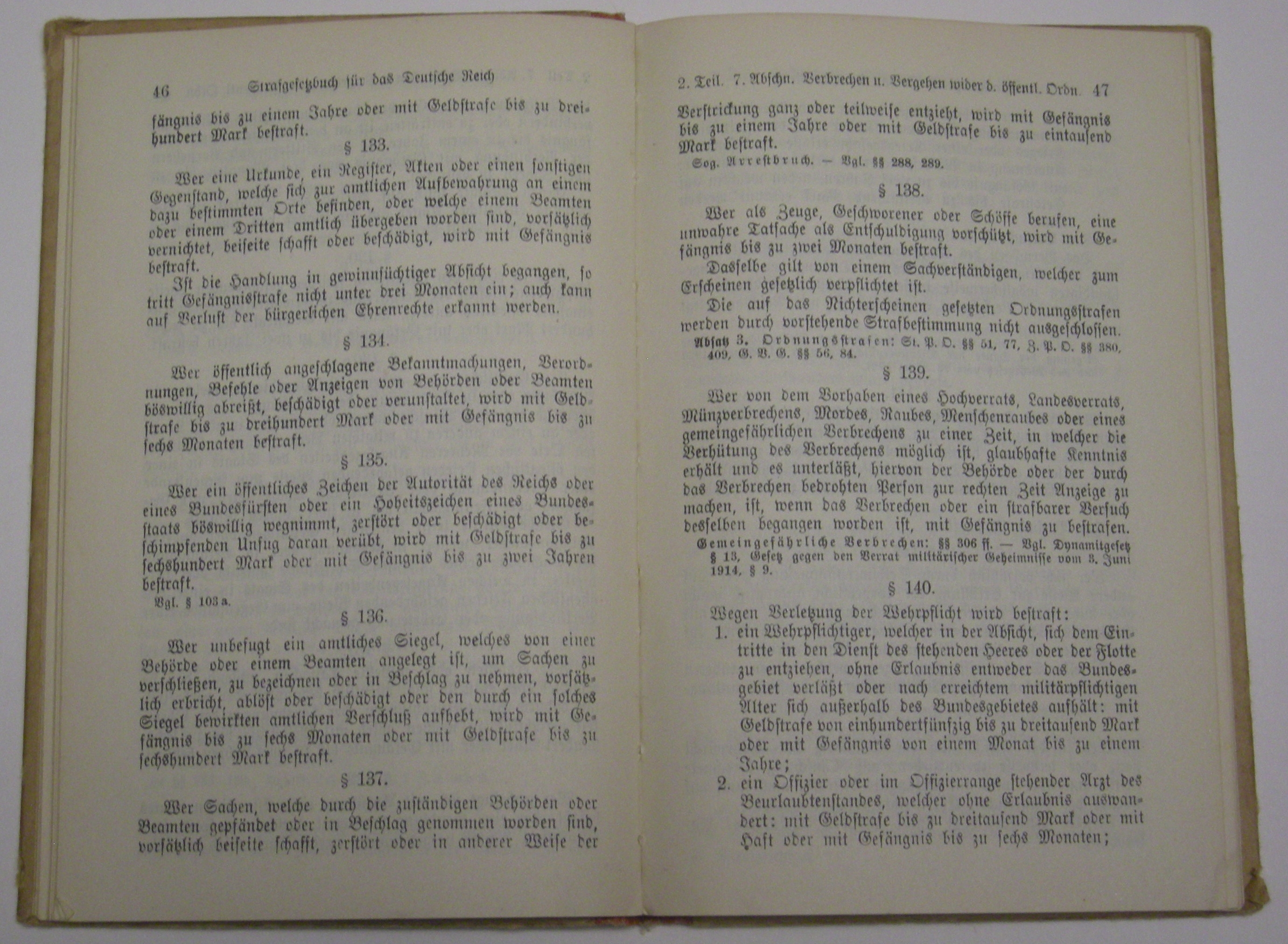 Criminal law code from the German Reich.